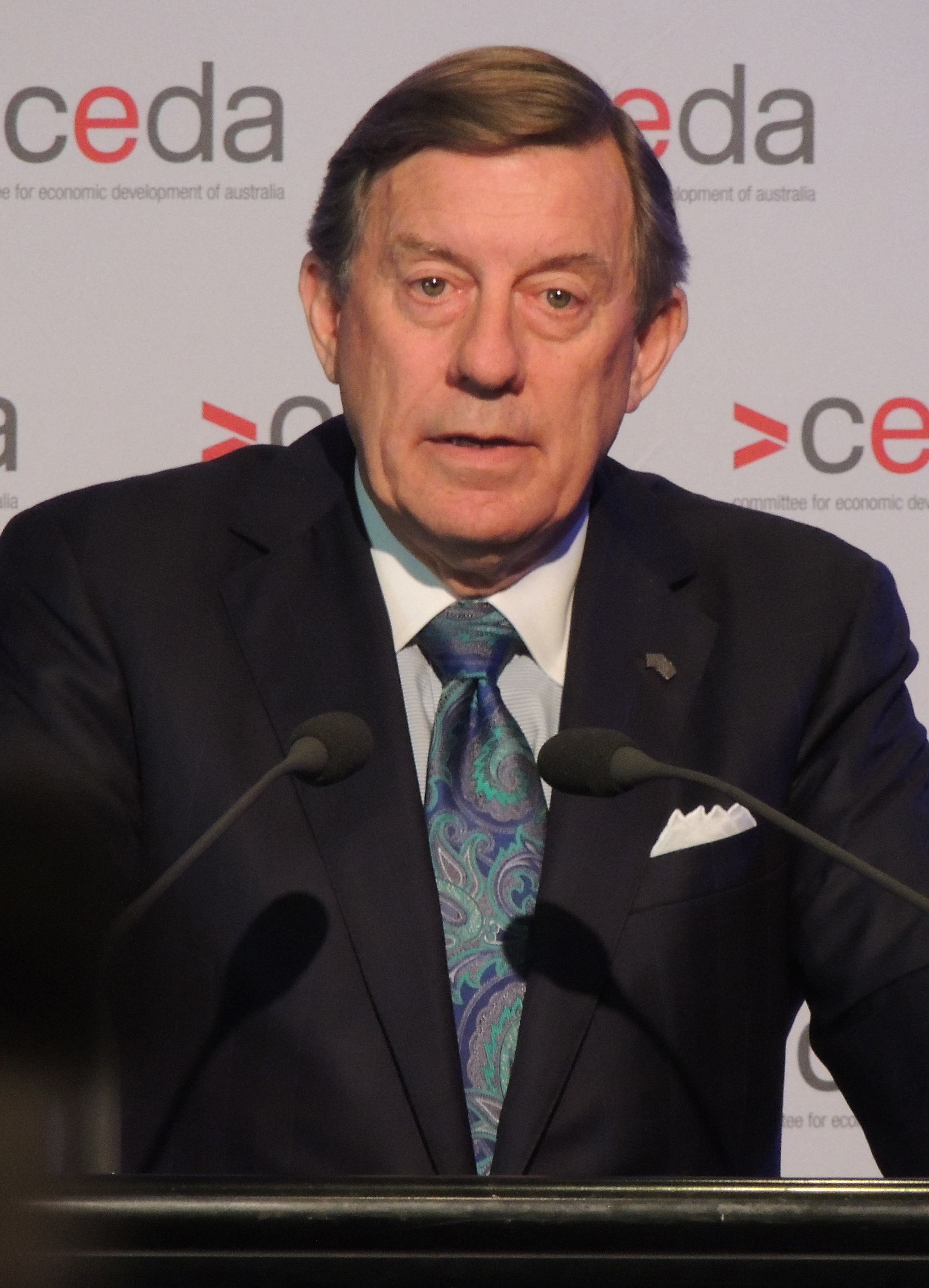 Raymond Spencer speaks at CEDA State of the State event - Adelaide, South Australia, 9 June 2015